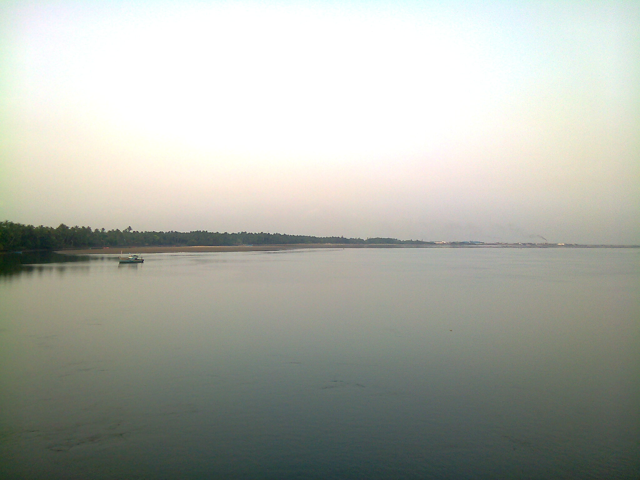 Nethravati River in Mangalore